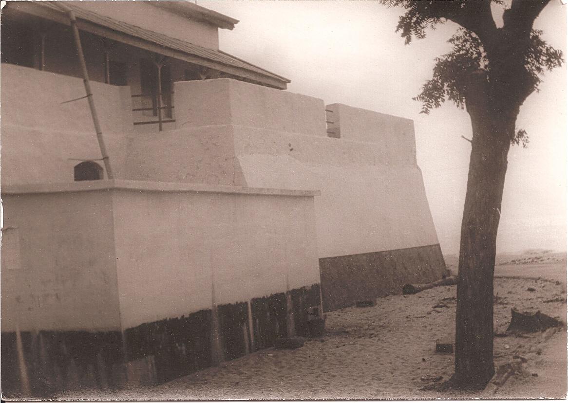 Fort Prinzestein, a Danish fort in Ghana used during slave trade era. The fort was used as a police department office, court and jail by the Ghanaian government in 1970, the time of the photograph.